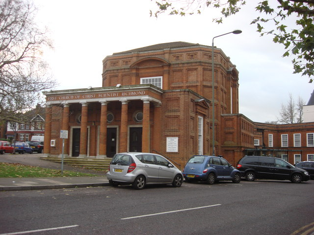 First Church of Christ, Scientist, Sheen Road, Richmond-upon-Thames, London (formerly Surrey), seen from the northeast